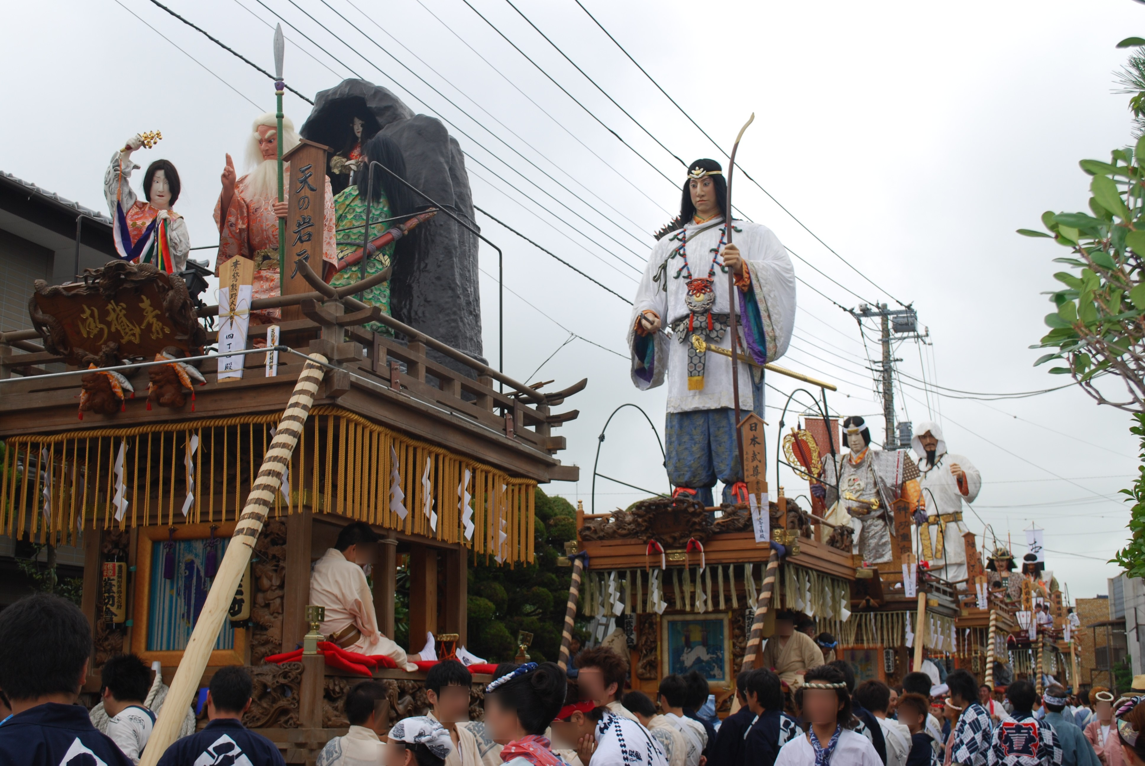 Iako Gion festival,Itako-city,Japan